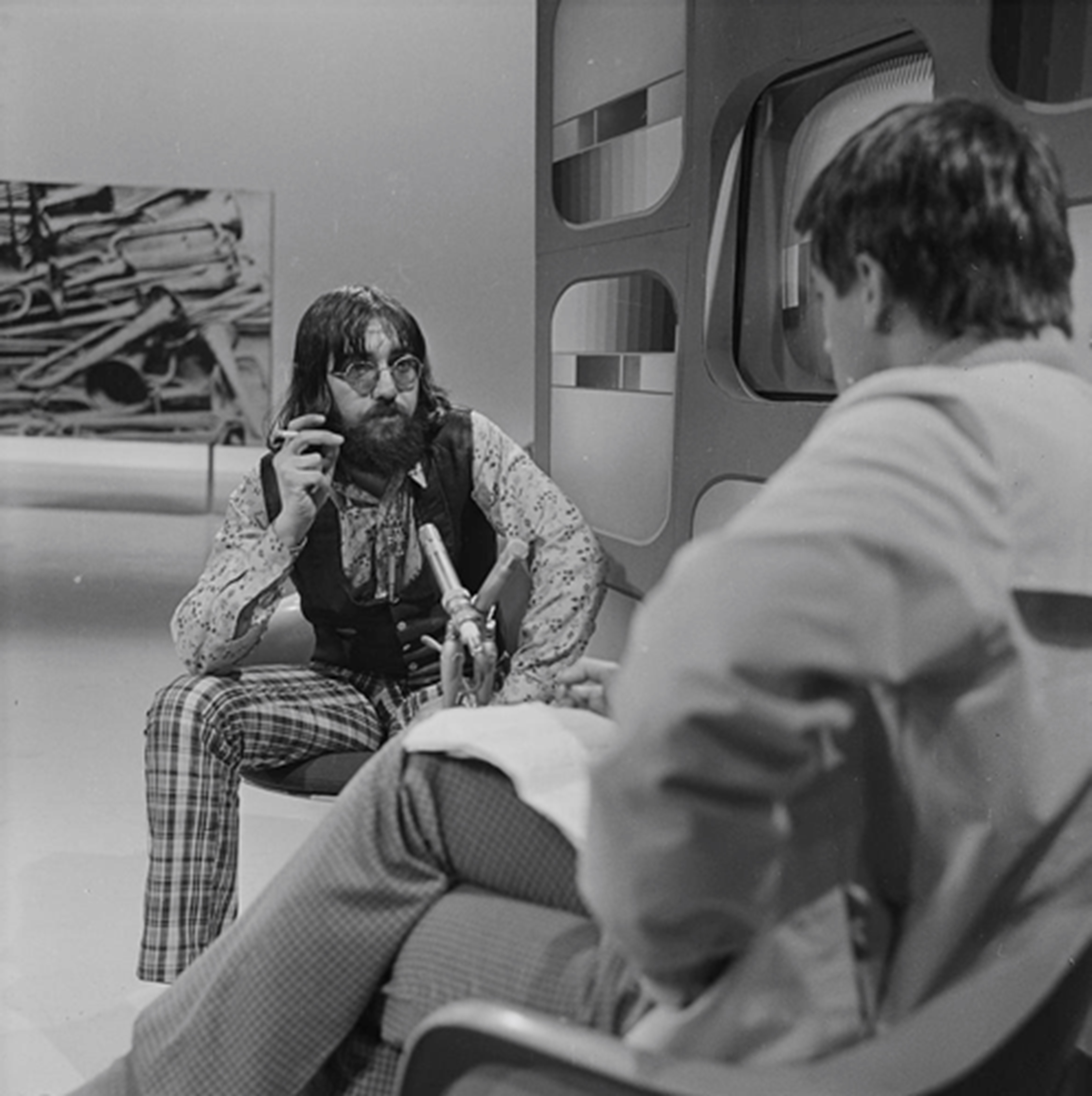 Ferre Grignard interviewed in Dutch TV programme Fanclub. Recording date: 28 May 1966; broadcast 3 June 1966.